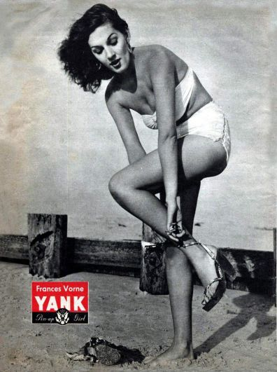 Pin-up photo of Frances Vorne for the Feb. 23, 1945 issue of Yank, the Army Weekly, a weekly U.S. Army magazine fully staffed by enlisted men.